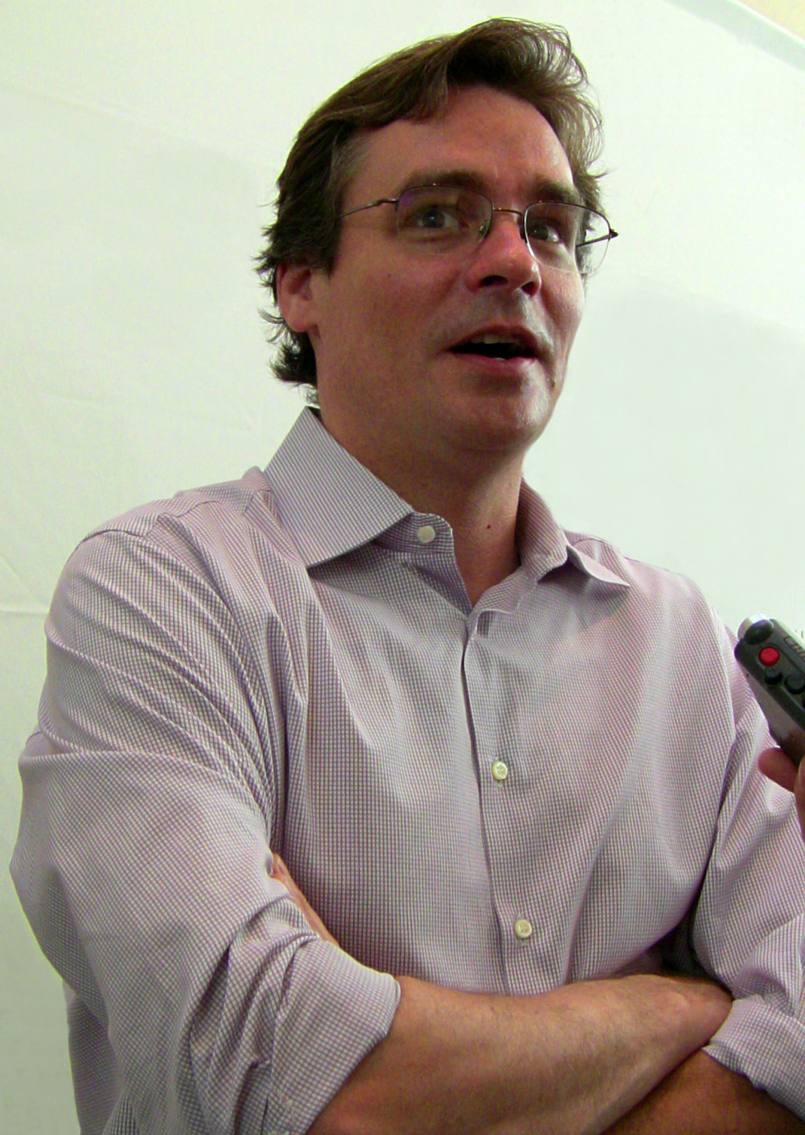 Actor Robert Sean Leonard at TV series House event at Paley Center for Media, Beverly Hills, California.